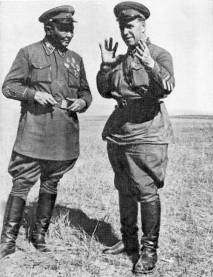 George Zhukov and Khorloogiin Choibalsan, Khalkhyn Gol